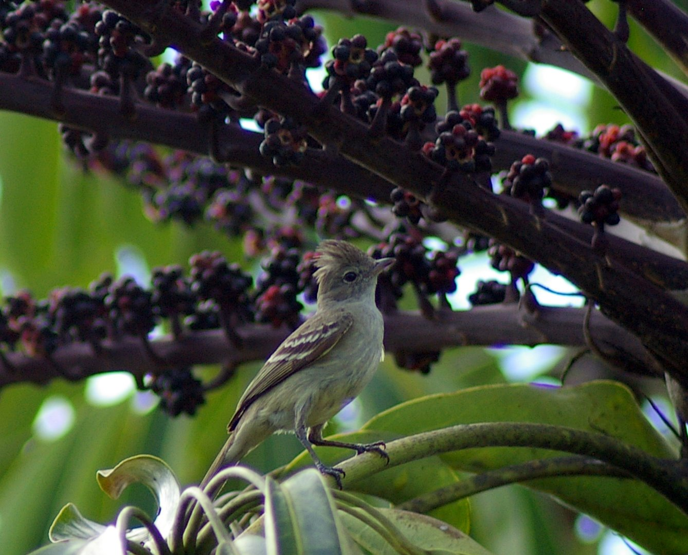 Yellow-bellied Elaenia in Brazil.